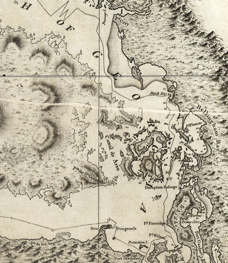 Excerpt of a map by George Vancouver, titled "A chart shewing part of the coast of N.W. America : with the tracks of His Majesty's sloop Discovery and armed tender Chatham / commanded by George Vancouver, Esqr. and prepared under his immediate inspection by Lieut. Joseph Baker..."; published 1798